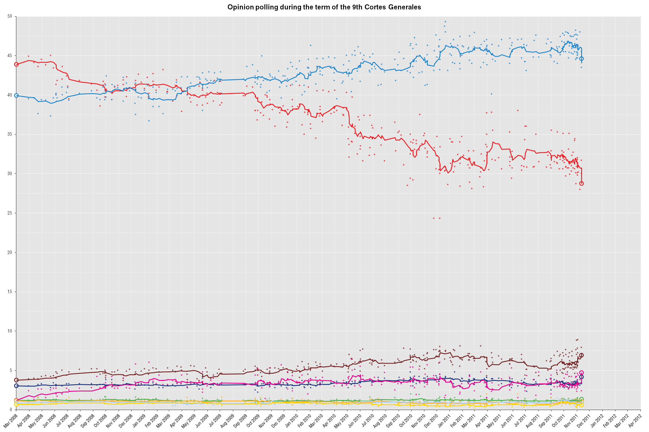 10-point average trend line of poll results from 9 March 2008 to 20 November 2011, with each line corresponding to a political party. PSOE PP IU CiU PNV UPyD ERC BNG CC